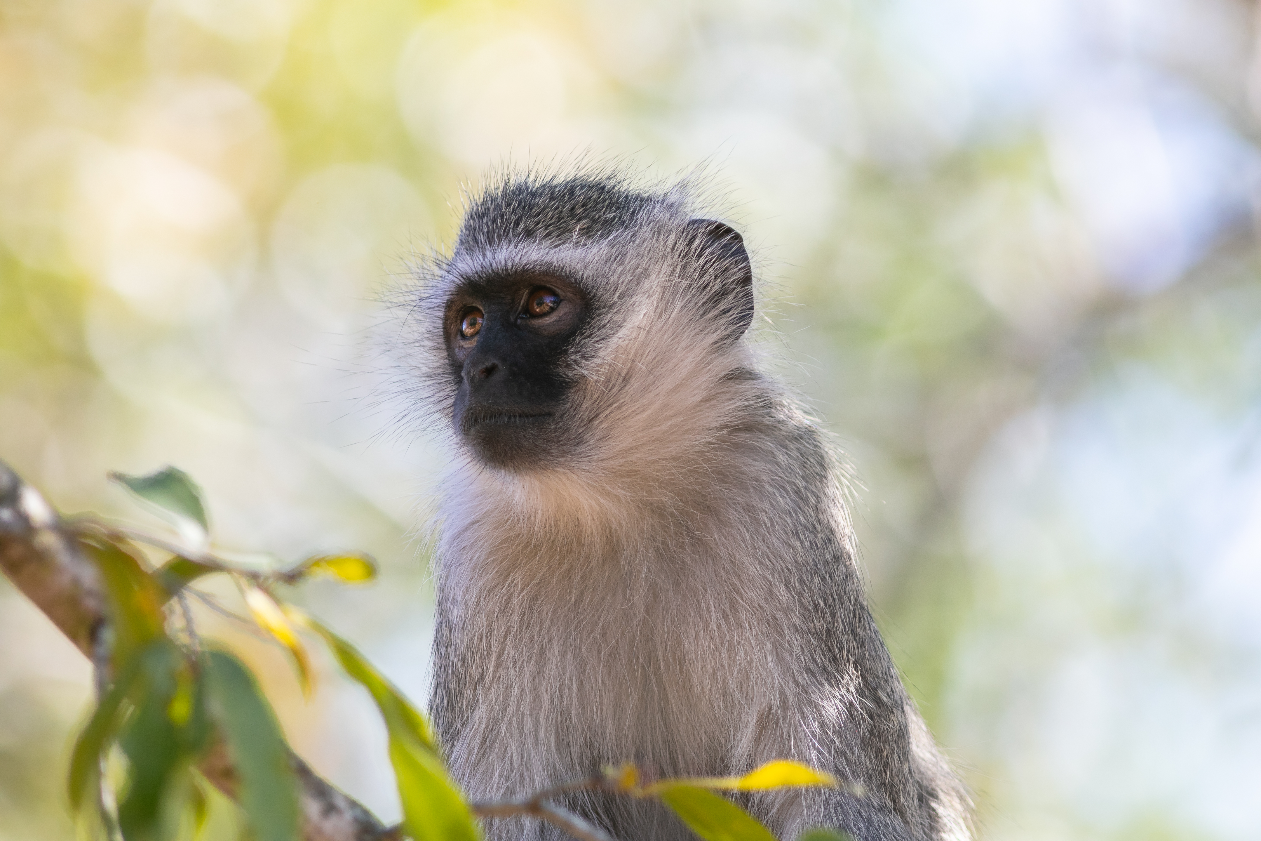 Vervet monkey (Chlorocebus pygerythrus), Kruger National Park, South Africa